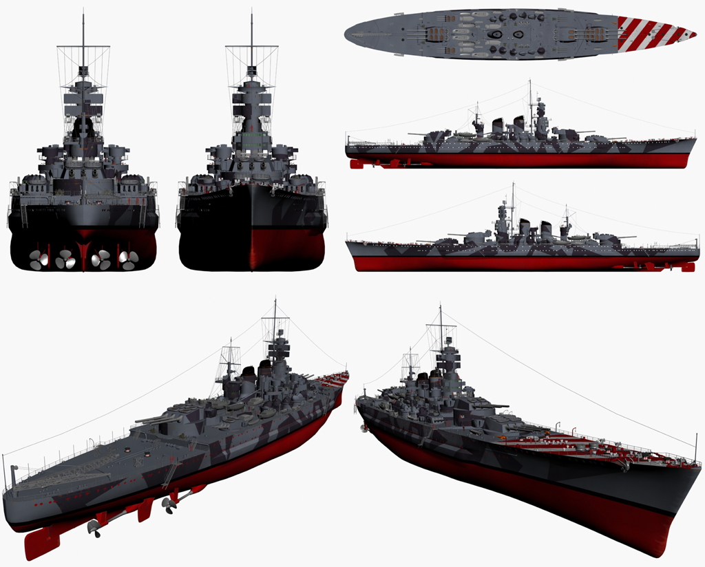 a 3D rendering of the different views of the Regia Marina Roma battleship